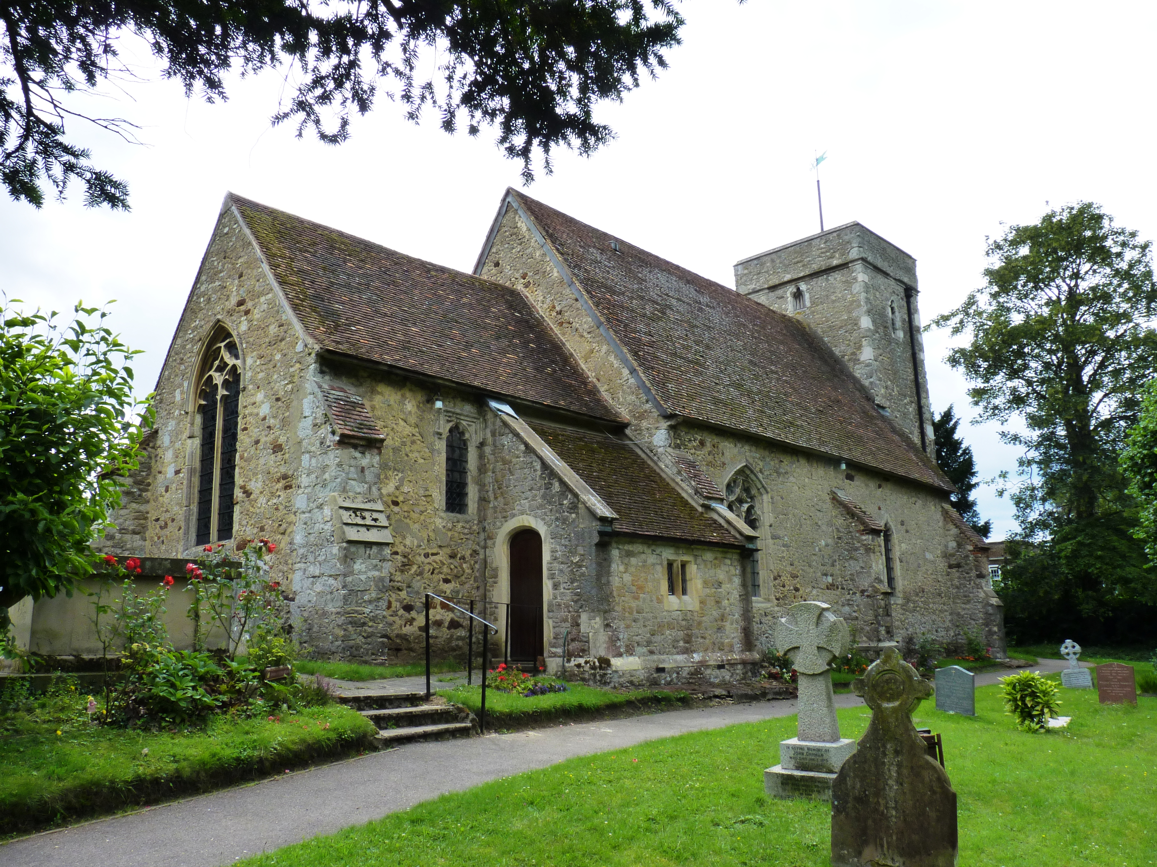 St Peter ad Vincula parish church, Ditton, Kent, seen from the east